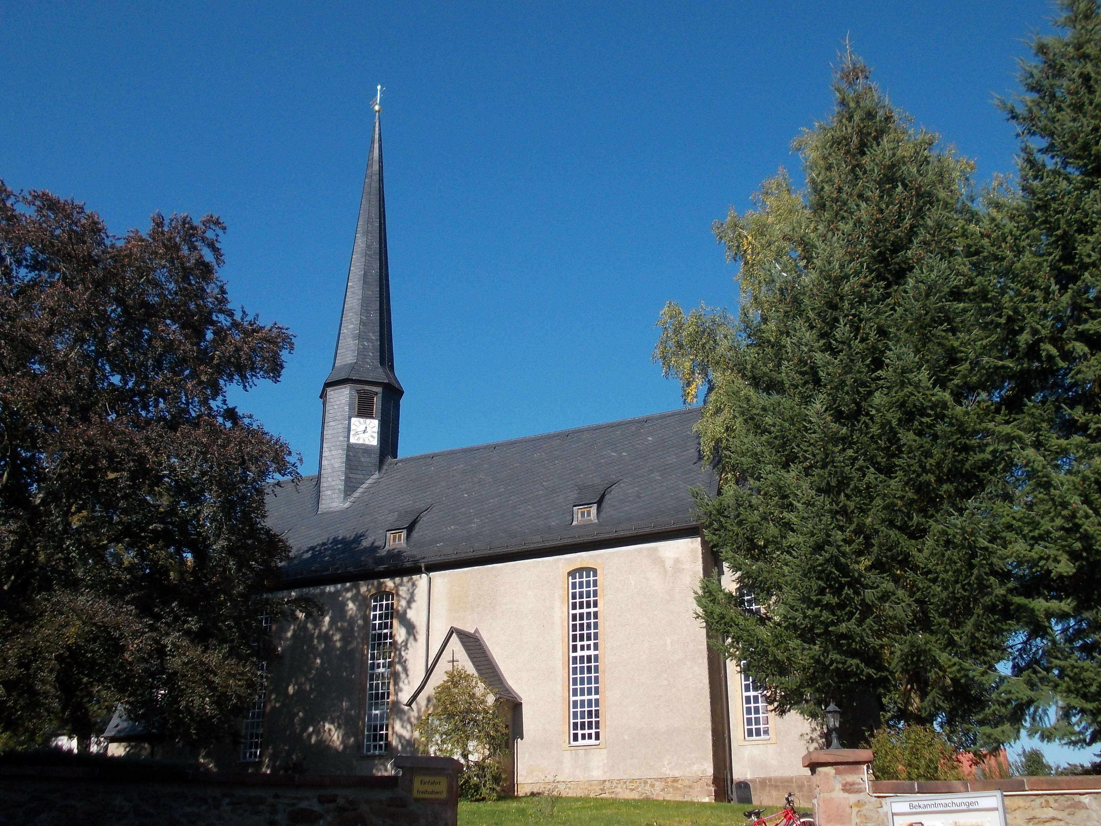 Mühlau church (Mittelsachsen district, Saxony)